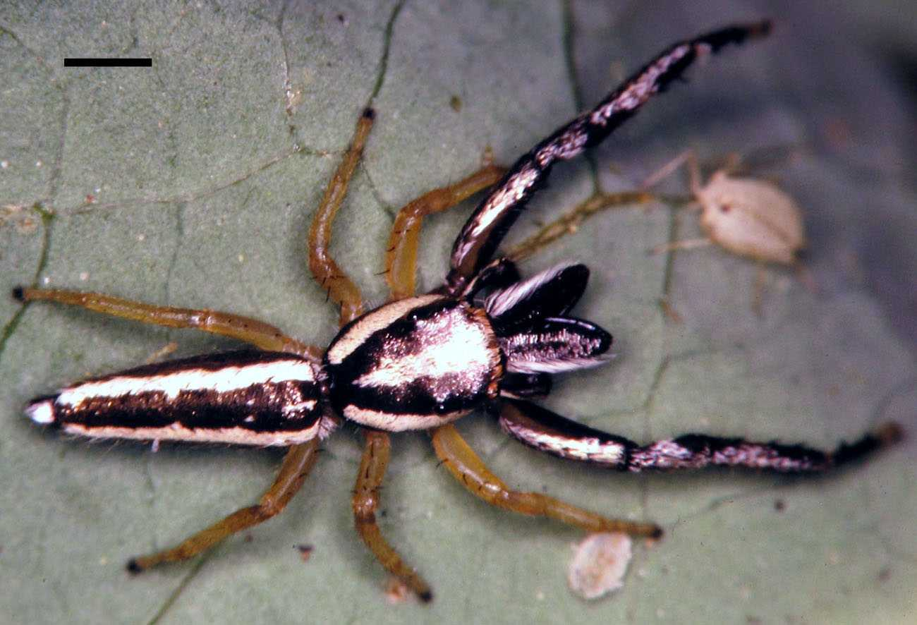 Male Hentzia grenada jumping spider from southern Florida, USA